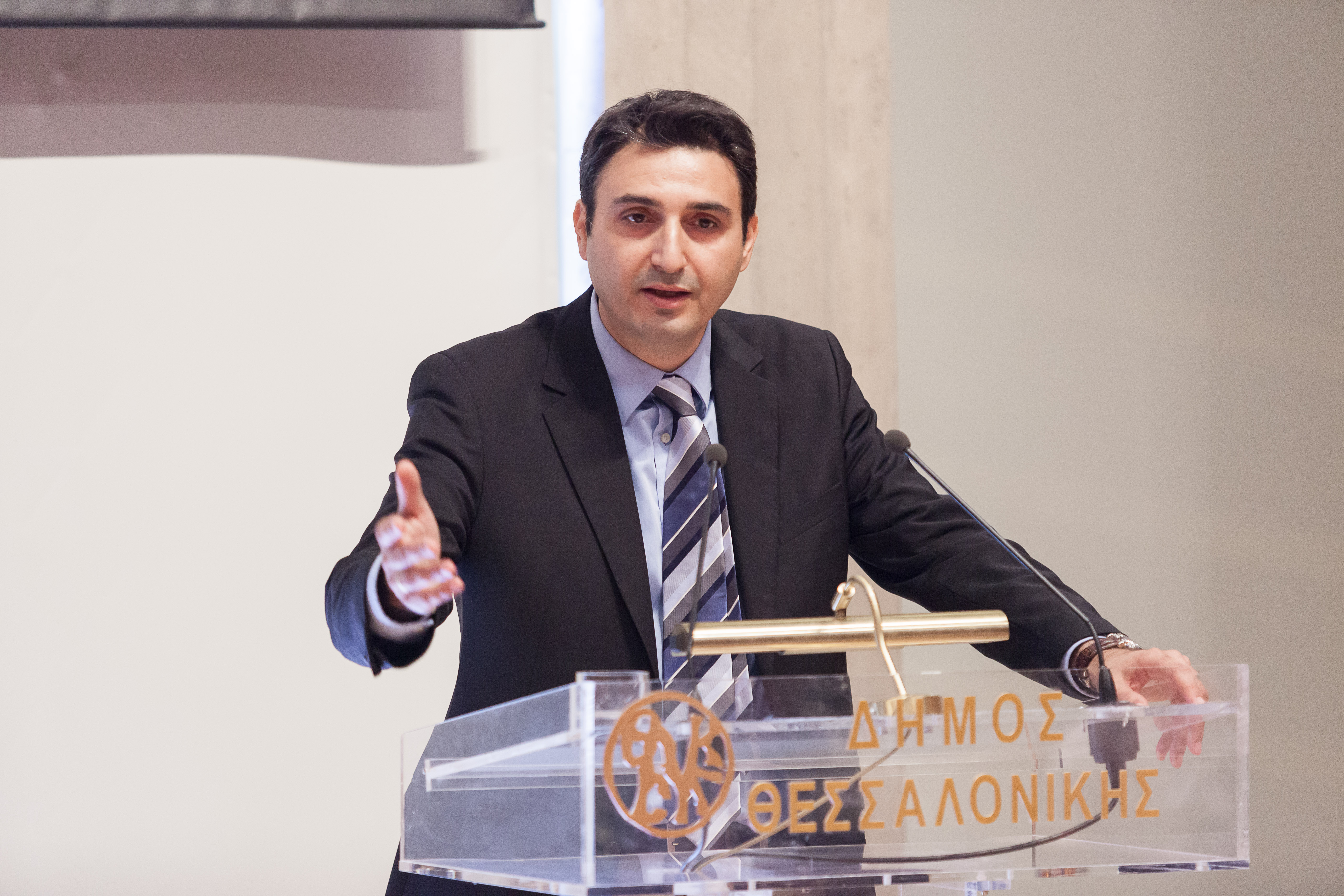 Chair of the workshop on energy transition and sustainable water treatment technologies, sponsored by the German Academic Exchange Service ( and the Assosiation of Greek Chemists (